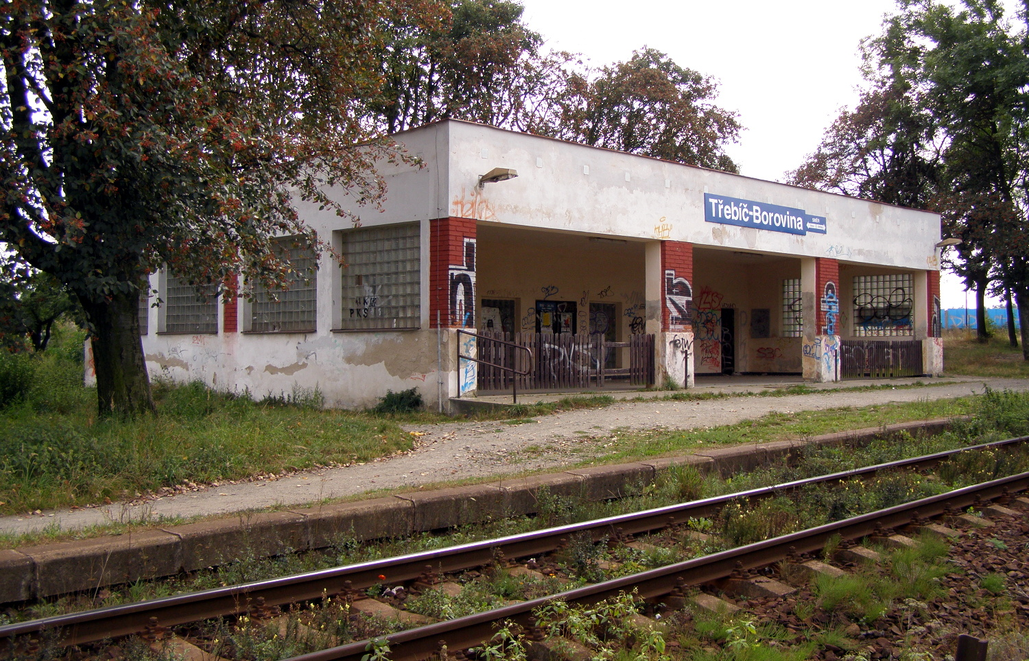 Třebíč-Borovina. Railway stop „Třebíč-Borovina“, railway line 240